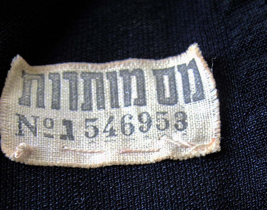 This label reads "Luxury tax" in Hebrew. It is attached to the inside of an Israel-made women's two-piece set (blouse and skirt) made prior to 1960, in black crepe with folkloric embroidery on the collar and chest.